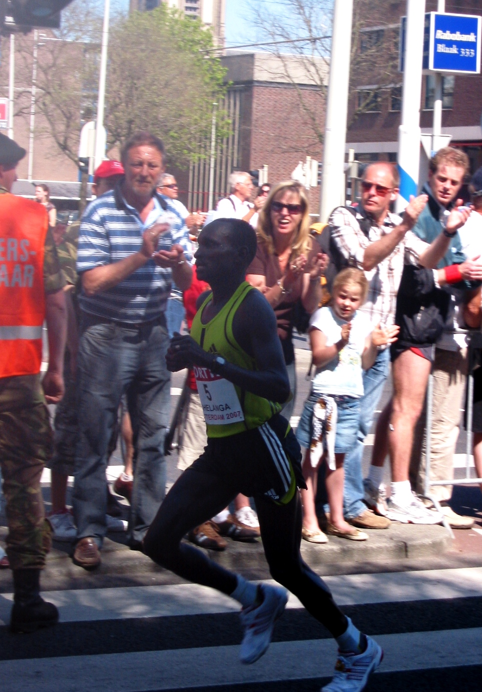 Rotterdam 2007, own work, foto of the winner Joshua Chelanga